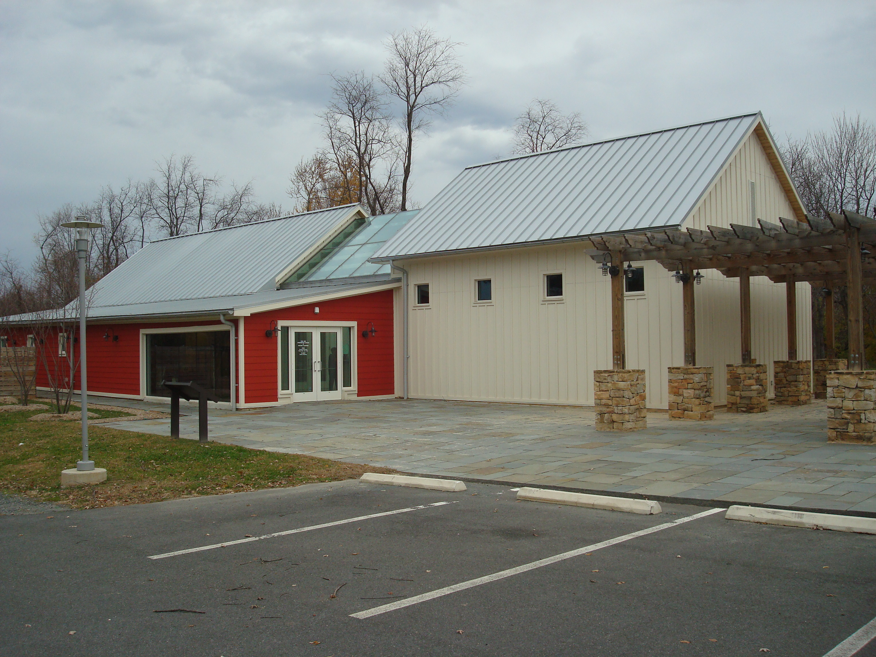 Outside view of Civil War Interpretive Center at Historic Blenheim